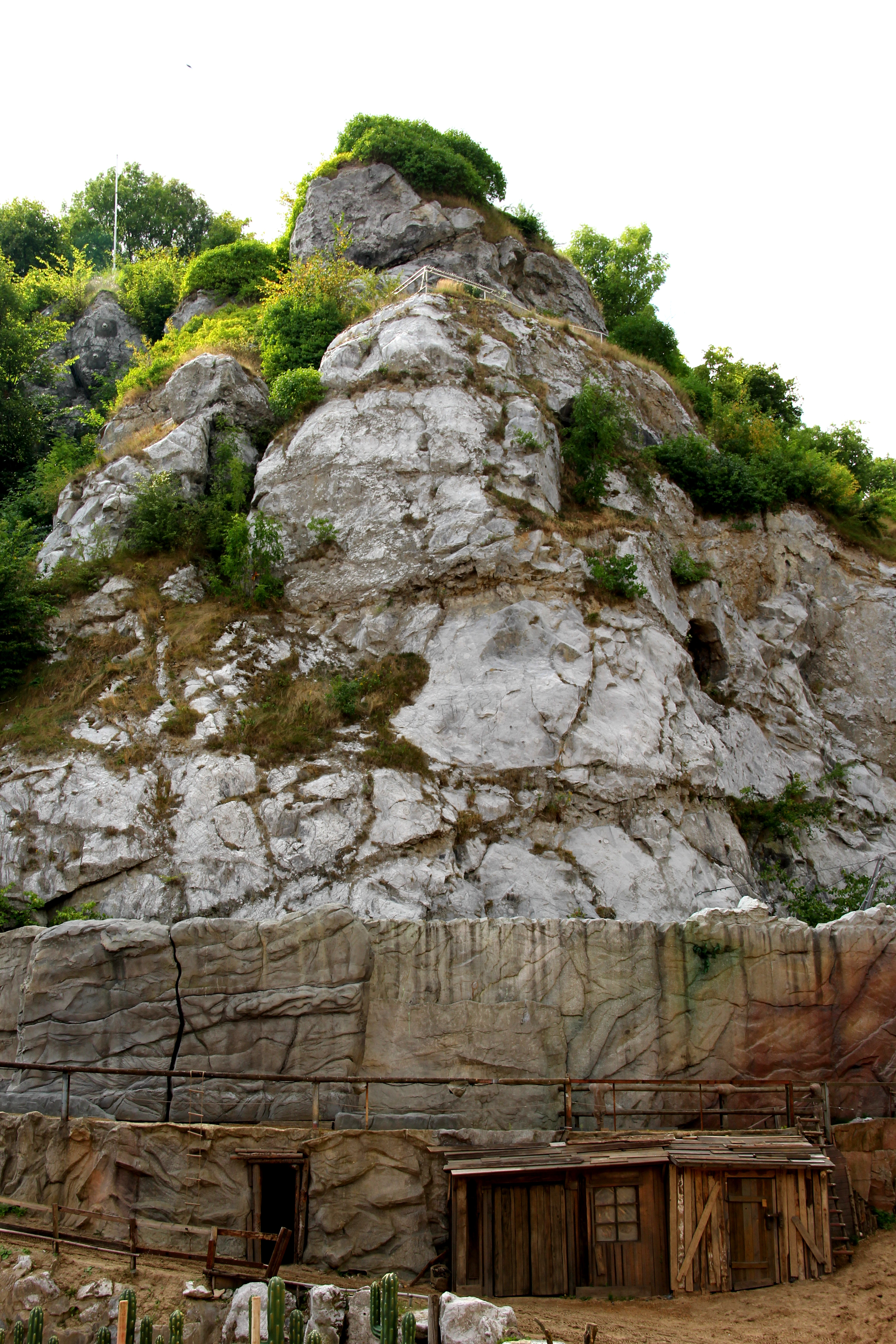 Bad Segeberg's Kalkberg